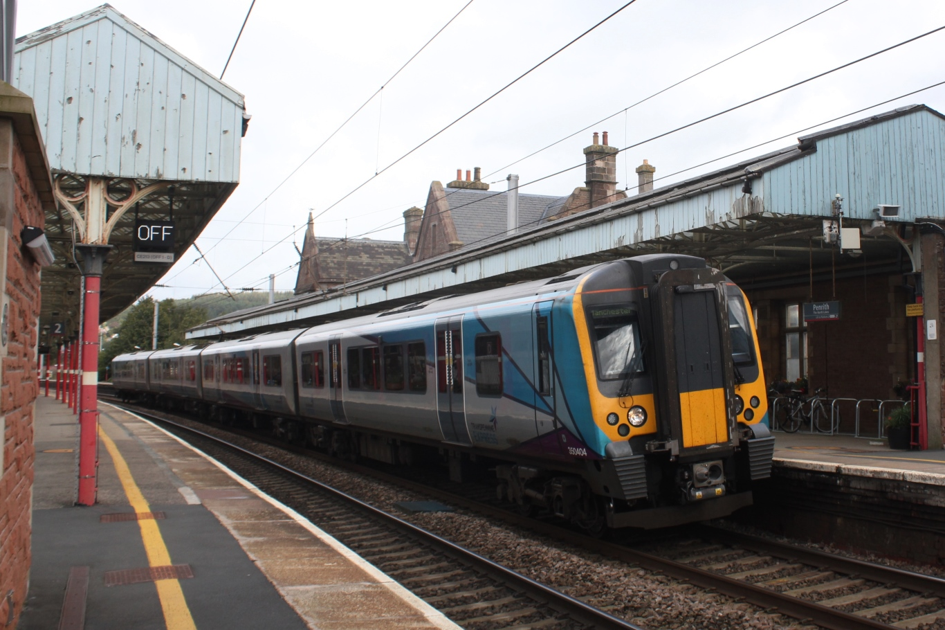 TransPennine Express electric 350404 at Penrith while on an Edinburgh to Manchester Airport service.